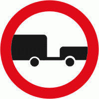 Diagram of road signs of Luxembourg